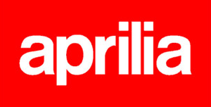 This is the Italian motorcycle company Aprilia's sole corporate logo.